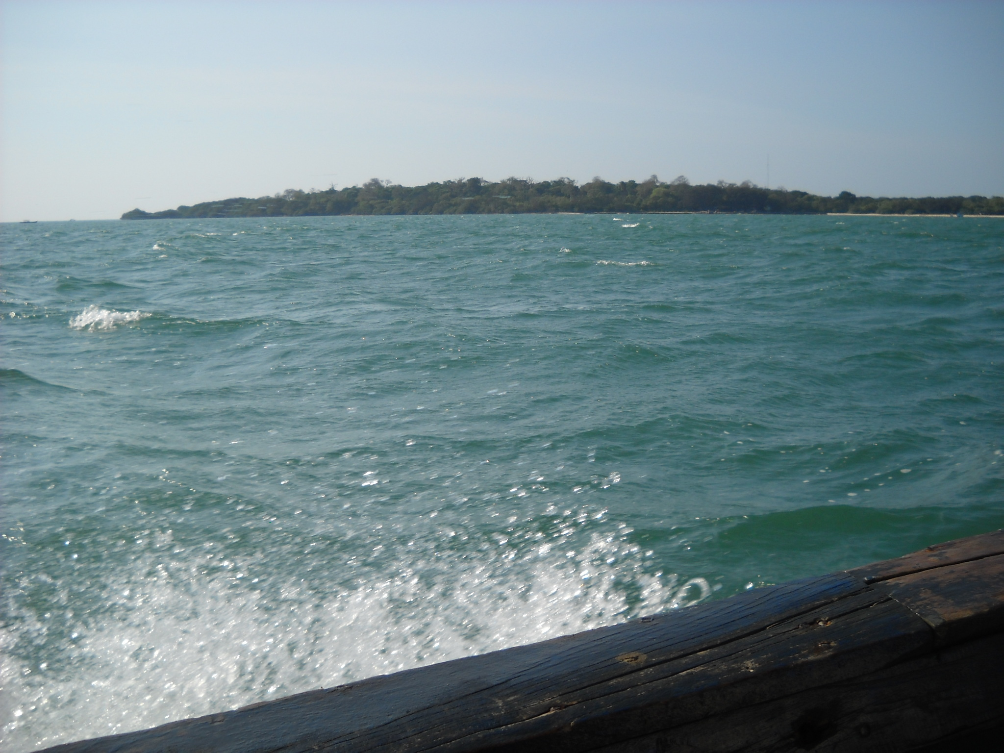 Pulau Rambut (Rambut Island) from afar